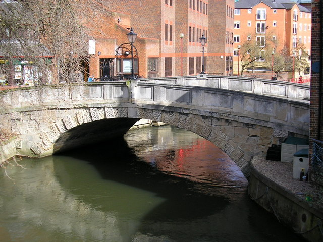 Canal Bridge, London Street, Reading Historic bridge over the Kennet and Avon Canal.